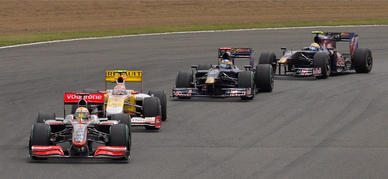 (Front to back) Lewis Hamilton, Nelson Piquet Jr., Sébastien Bourdais and Sébastien Buemi at the 2009 British Grand Prix, Silverstone, UK.